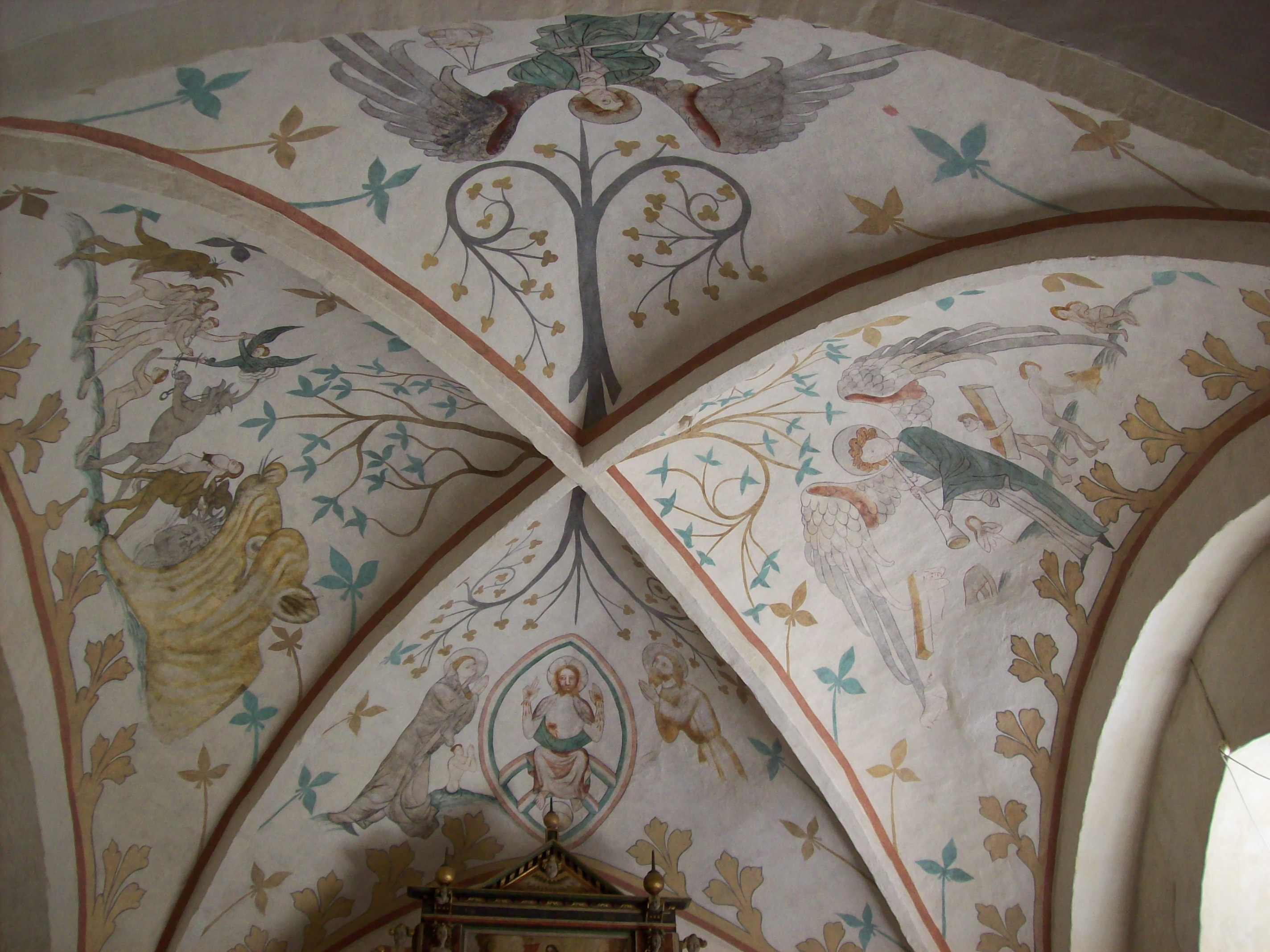 quire fresco at Højby, Odsherred church